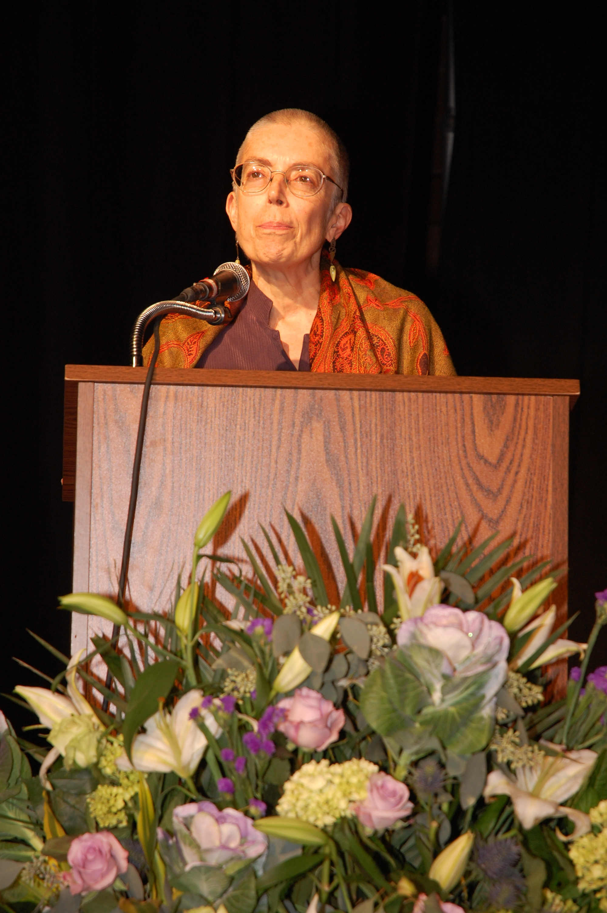 Author / activist Jan Clausen speaking at the National Writers Union (NWU - UAW Local 1981) 30th anniversary celebration in NYC.